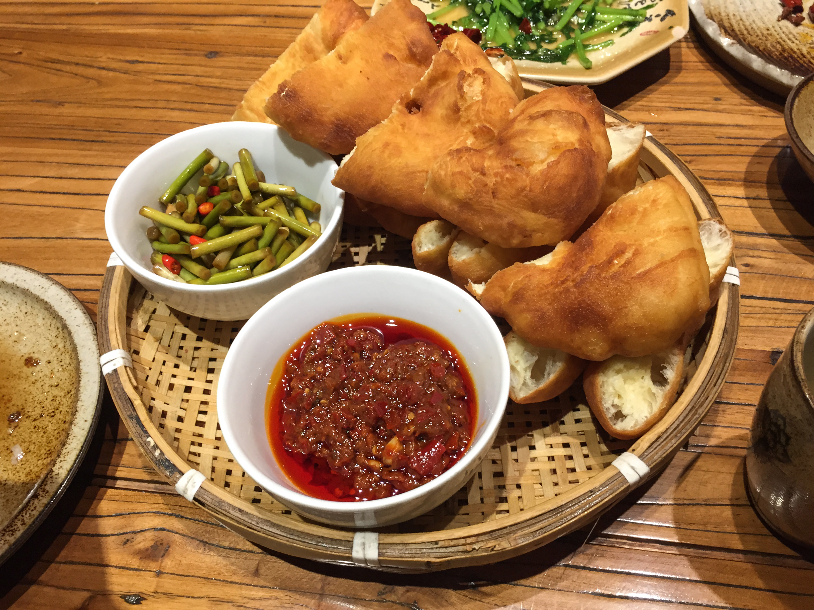 In Shaanxi, youbing is accompanied by pickles. This photo has been taken in the country: China